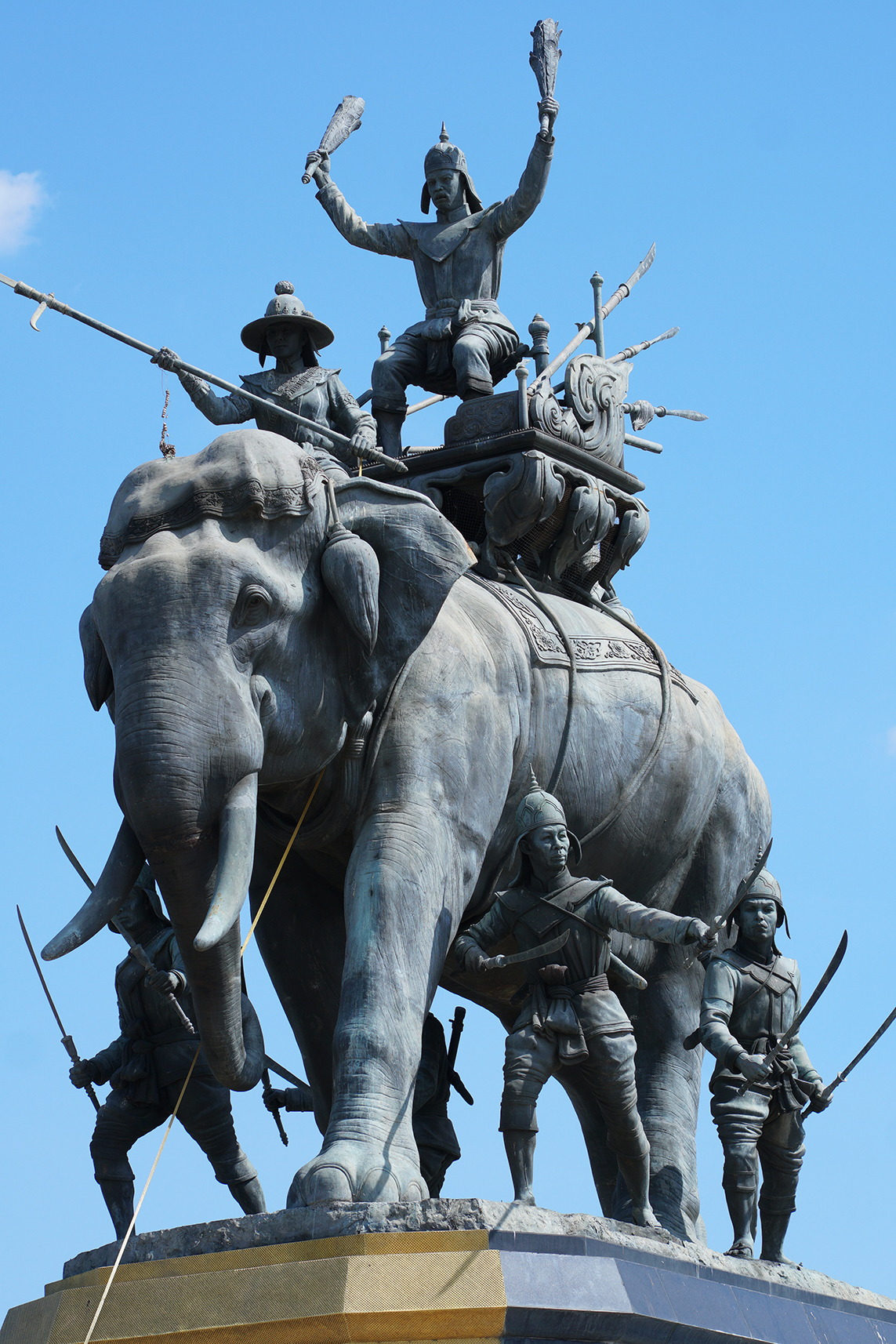 Queen Suriyothai Monument